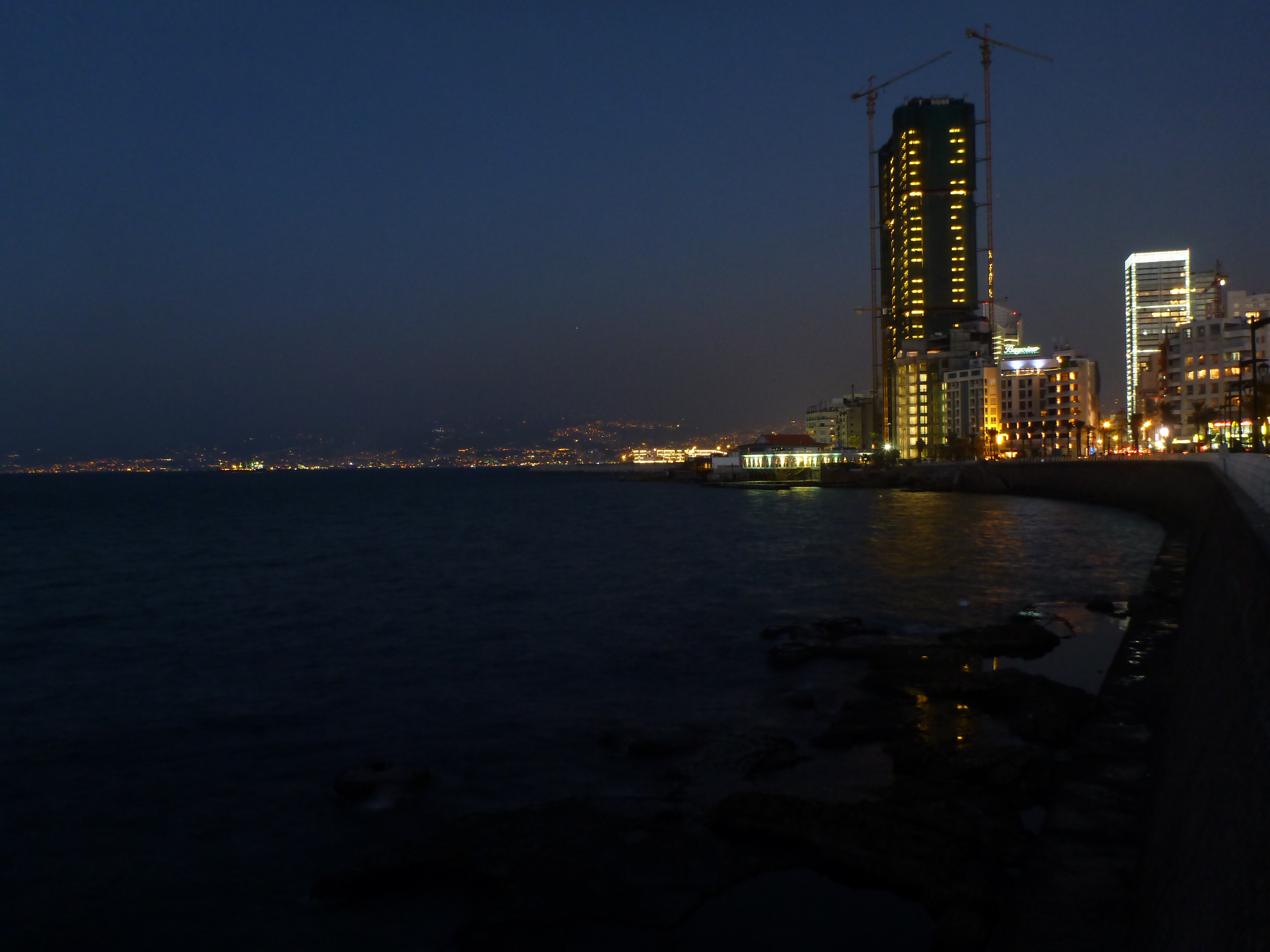 Night at Beirut Corniche